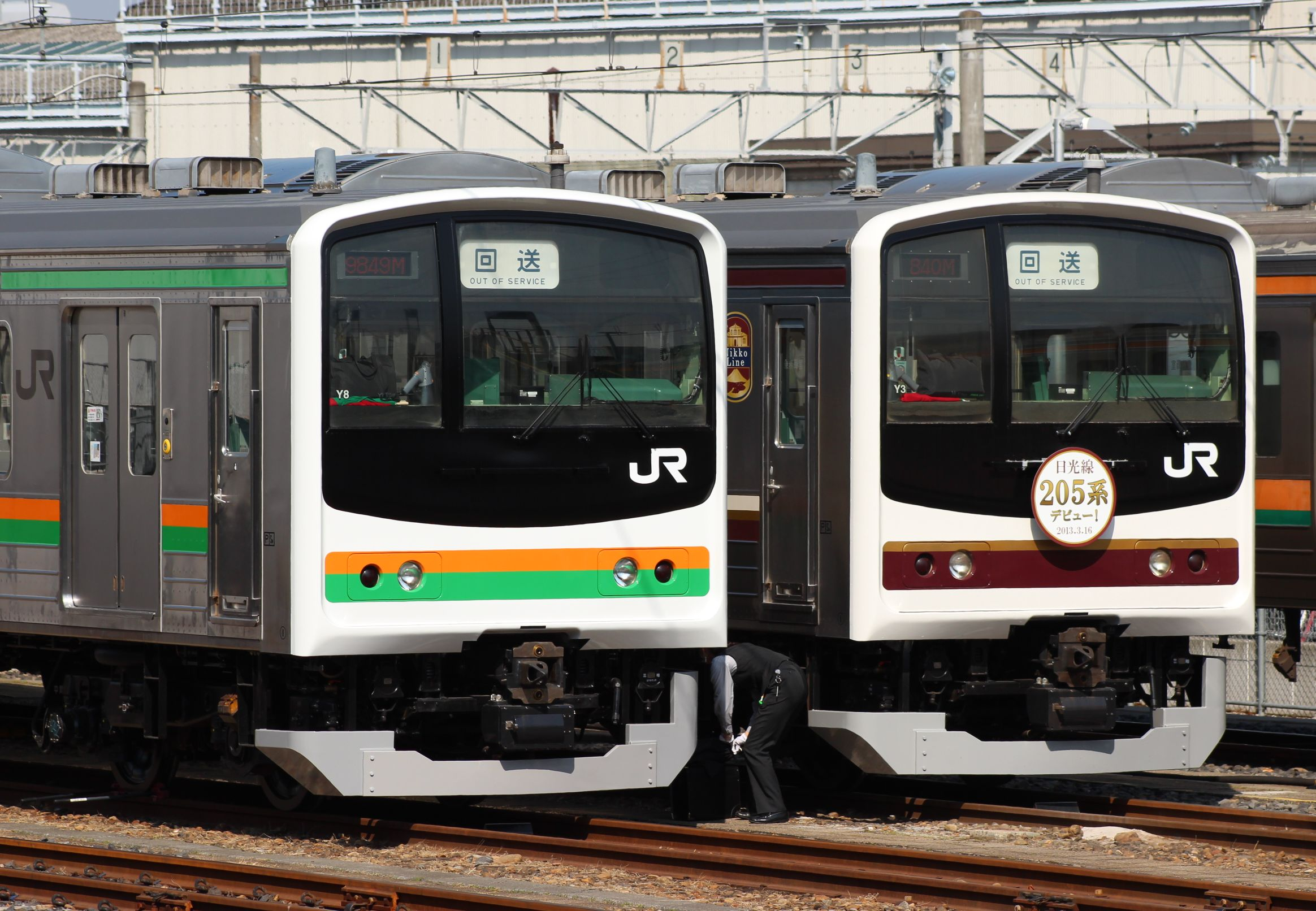 JR East 205-600 series 4-car EMU sets Y8 (left) in Utsunomiya Line livery and Y3 (right) in Nikko Line livery